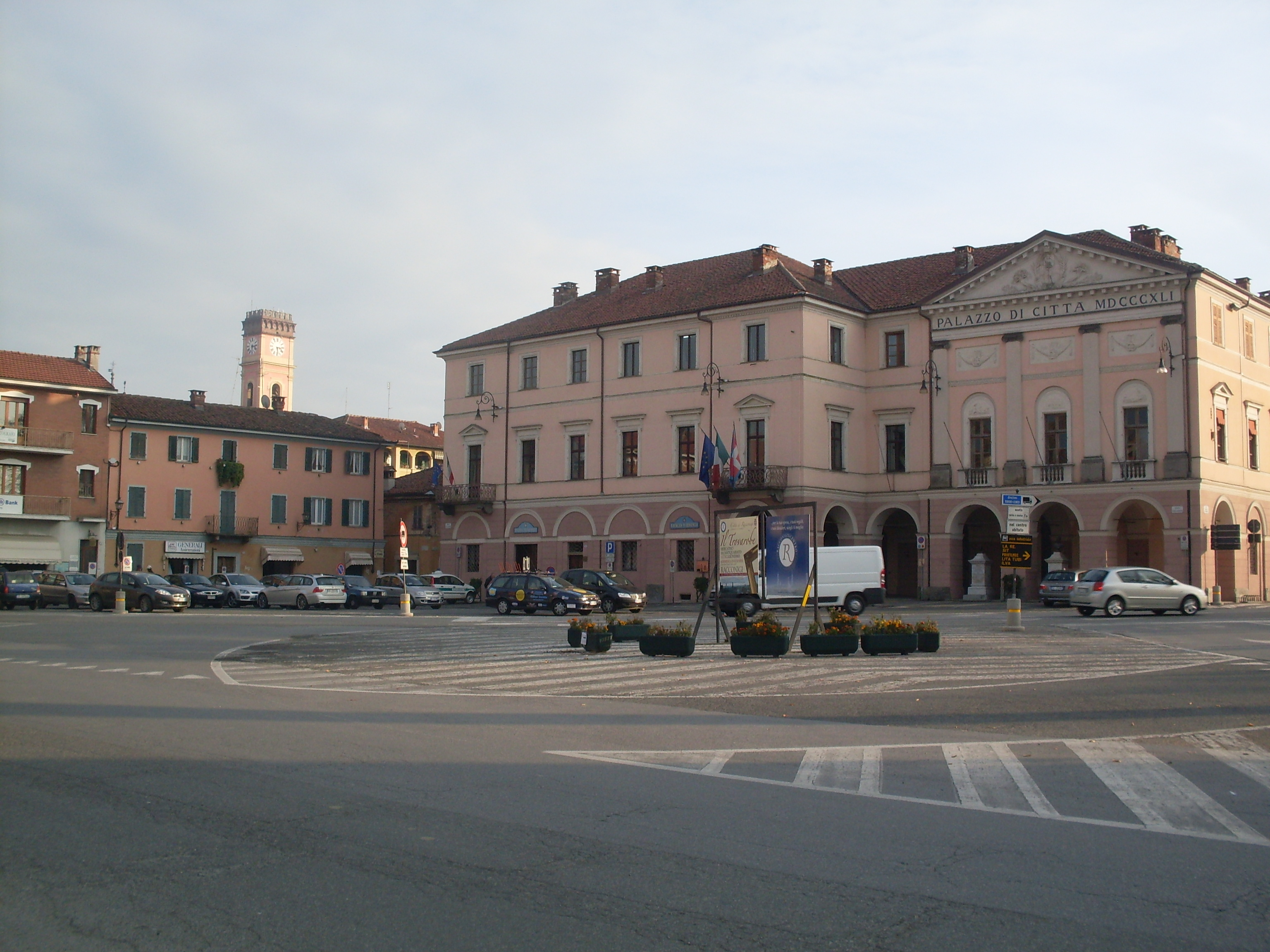 Racconigi City Hall